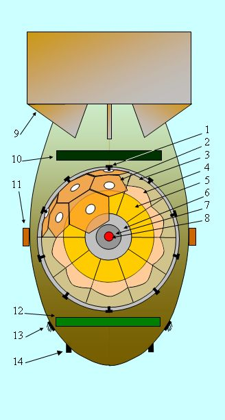 Sketch, principle of Fat Man bomb.